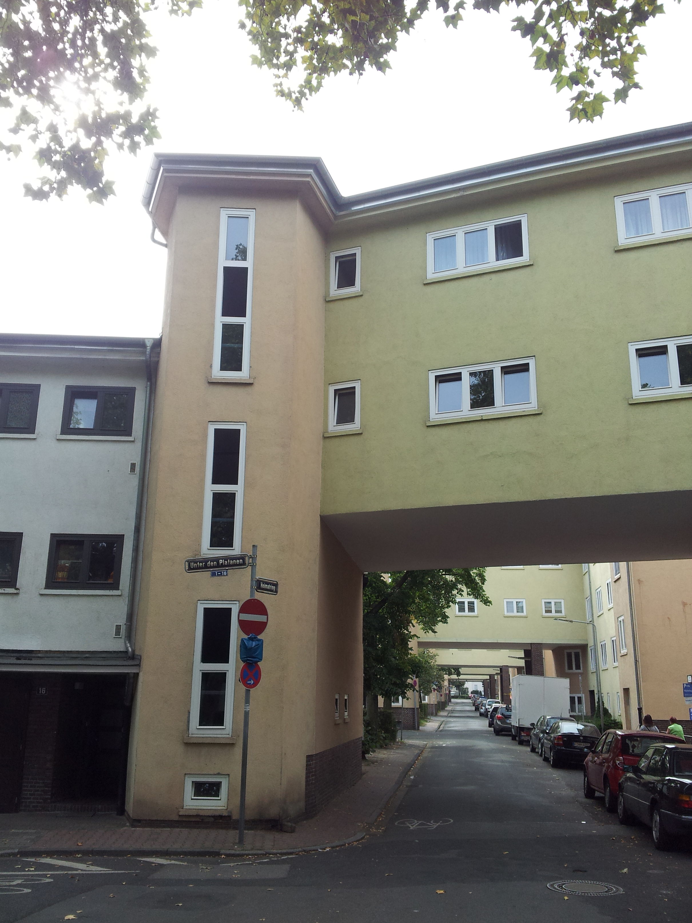 Heimatsiedlung, a housing estate of the "New Frankfurt"-project. Architect: Franz Roeckle, 1927